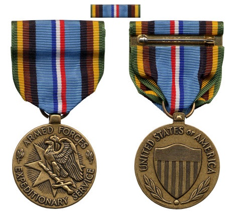 Armed Forces Expeditionary Medal